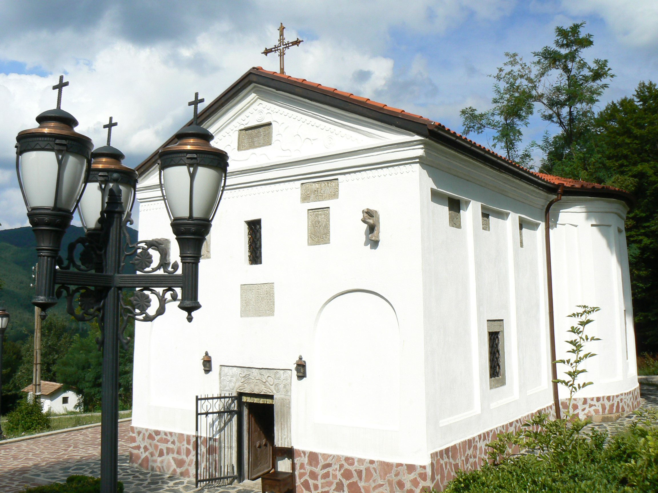 Church "Saint Theodore Tyro" in Pravetz Monastery, Bulgaria